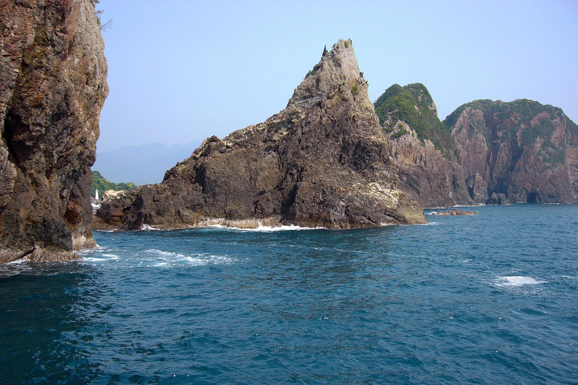 Ki-no-Matsushima, Nachikatsuura, Wakayama prefecture, Japan